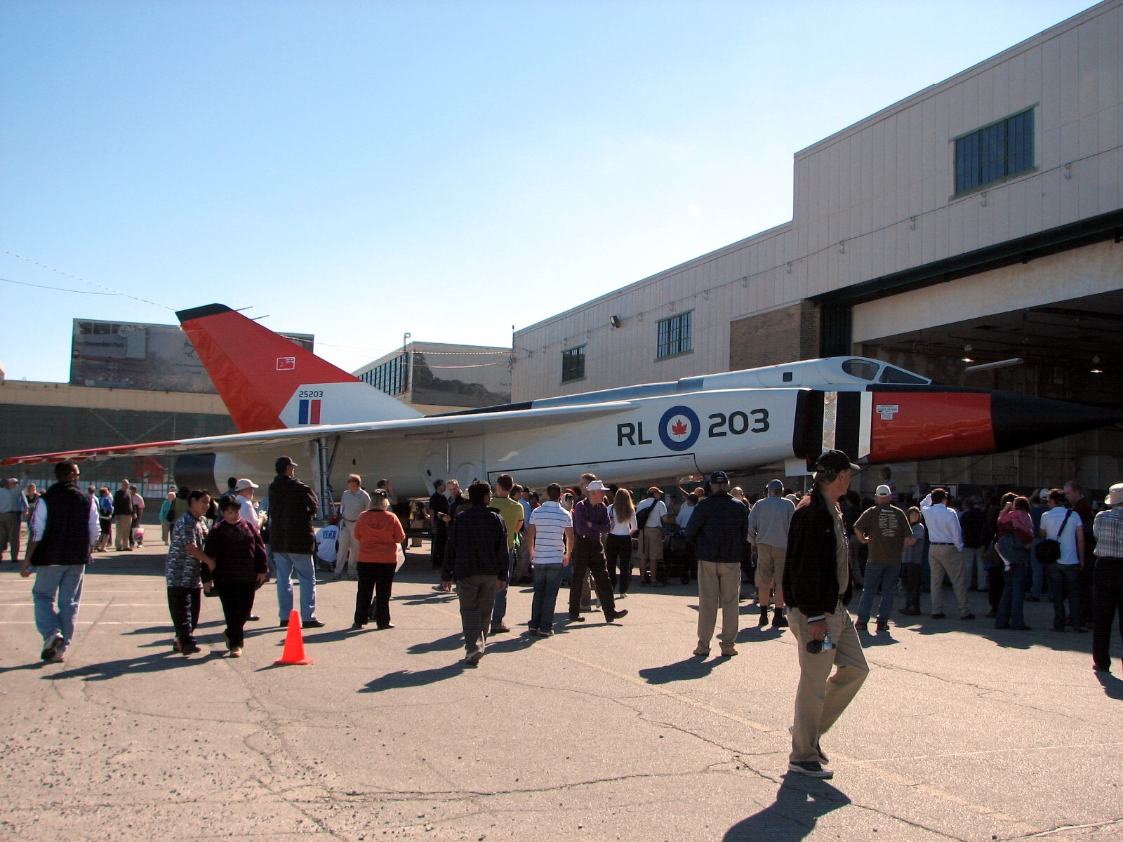 Avro Arrow replica at TAM Arrow Rollout